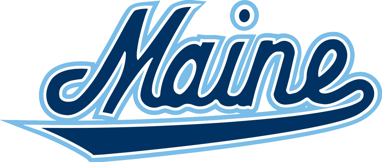 Logo for the Maine Black Bears athletics program.